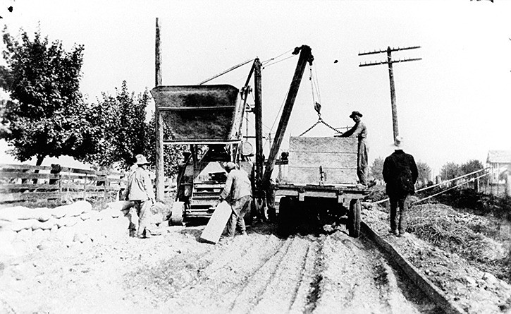 This photo from the museum archives (1314) shows construction circa 1922.